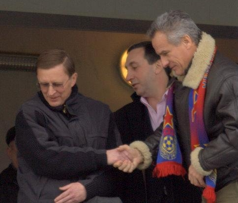 From left to right: Sergey Ivanov, Evgeny Giner and Sergey Yastrzhembskiy at the match between FC Dynamo Moscow and PFC CSKA Moscow